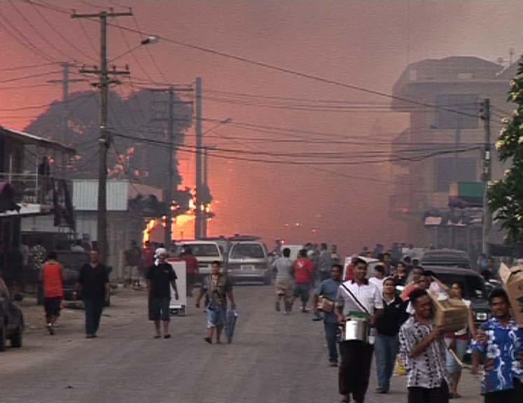 Looters running during the 2006 riots in Nukuʻalofa, Tonga.